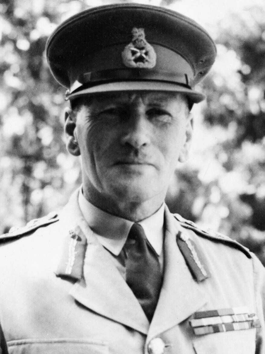 General Sir Claude Auchinleck, Commander-in-Chief, Middle East during June 1941 - August 1942.